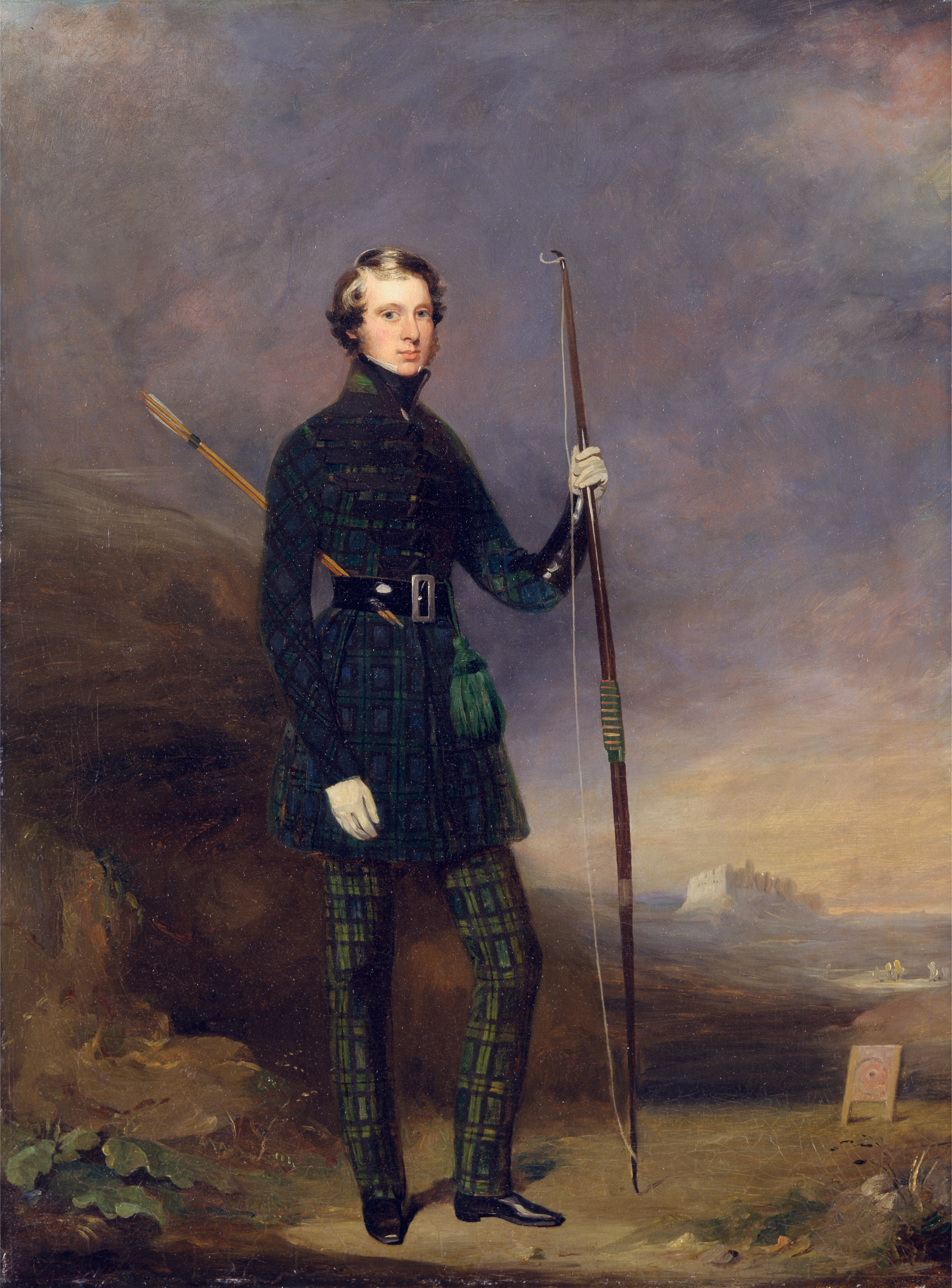 John Logan Campbell in the club dress of the Edinburgh Alleion Archers oil on canvas 75.6 x 55.9 cm